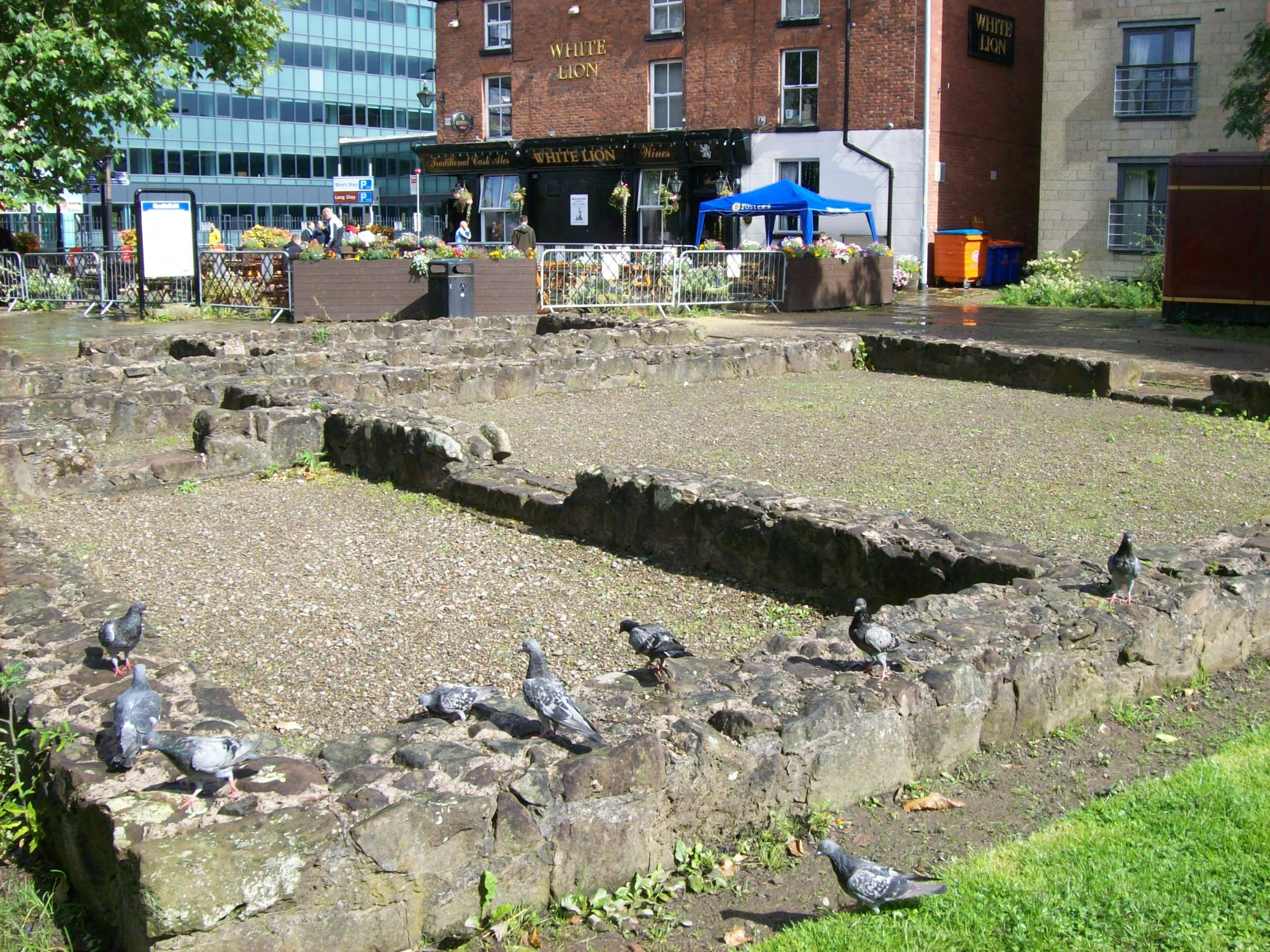 Reconstructed foundations of buildings in vicus at Mamucium- Castlefield, Manchester